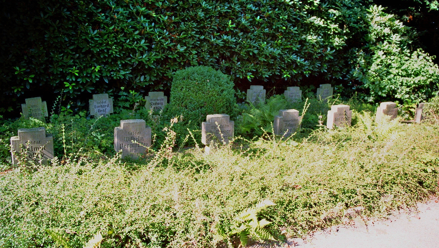 War graves in the Central Cemetery (Zentralfriedhof) in Ibbenbüren, Kreis Steinfurt, North Rhine-Westphalia, Germany.